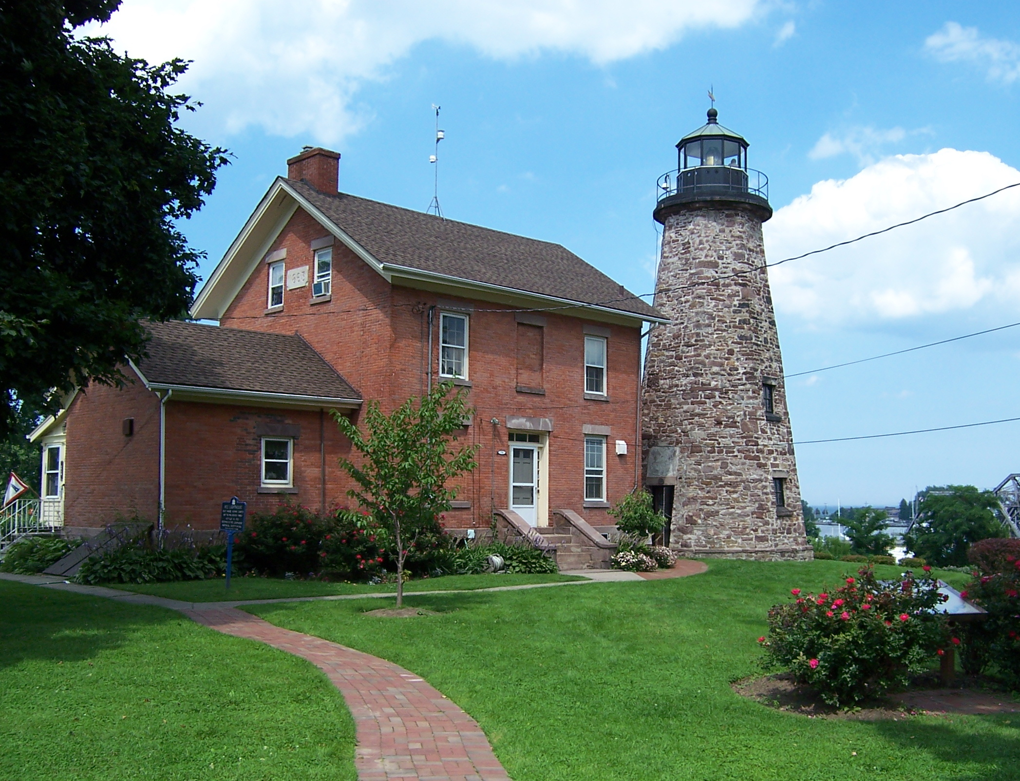 The Charlotte-Genesee Lighthouse in Charlotte, the northernmost neighborhood of Rochester, New York. Built in 1822, the light tower is 40 feet tall. It was deactivated in 1881. It was saved from destruction in 1965 and is now a museum operated by a nonprofit agency for Monroe County. It is listed on the National Register of Historic Places.